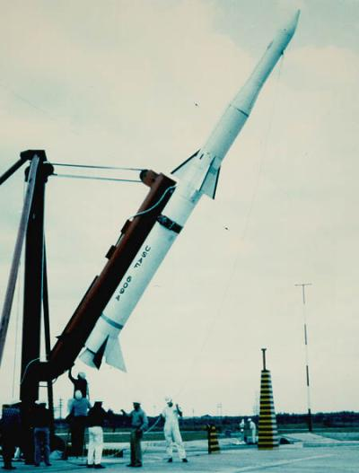 Blue Scout Jr rocket.